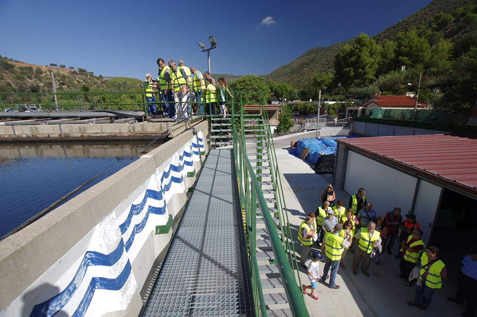 Jornada de portes obertes a la Comunitat Minera Olesana